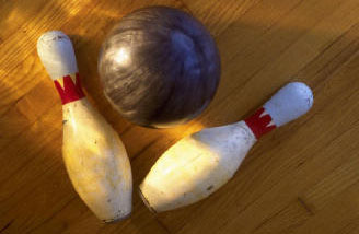 A plastic ball and two bowling pins.